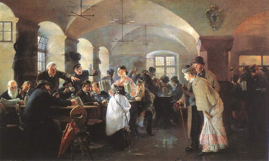 Philip Alexius de László: In the Hofbräuhaus in Munich, 1892. Oil on canvas, 78,5 x 128,6 cm, Hungarian National Gallery, Budapest